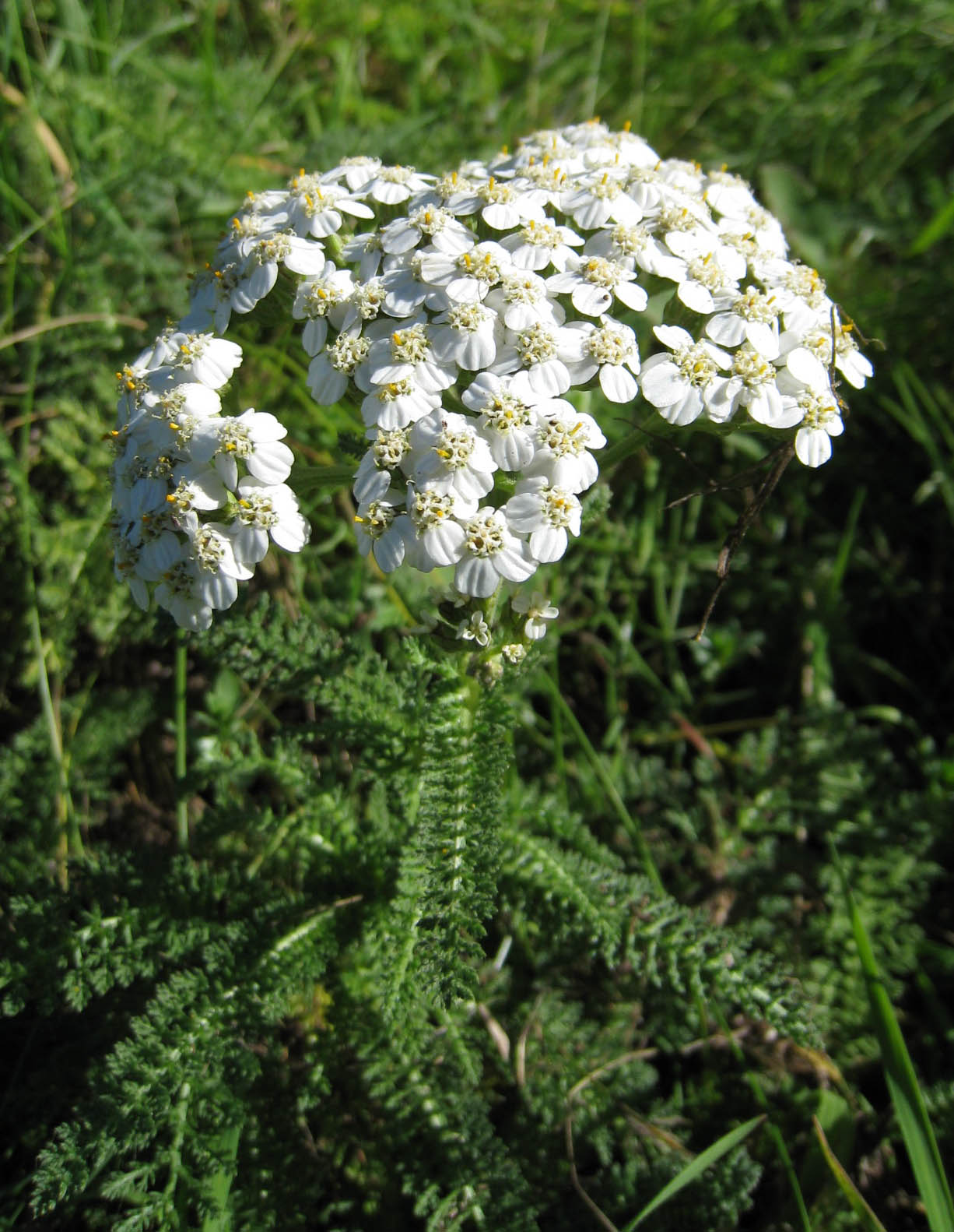 Achillea millefolium (Yarrow) in Scotts Valley, CA.